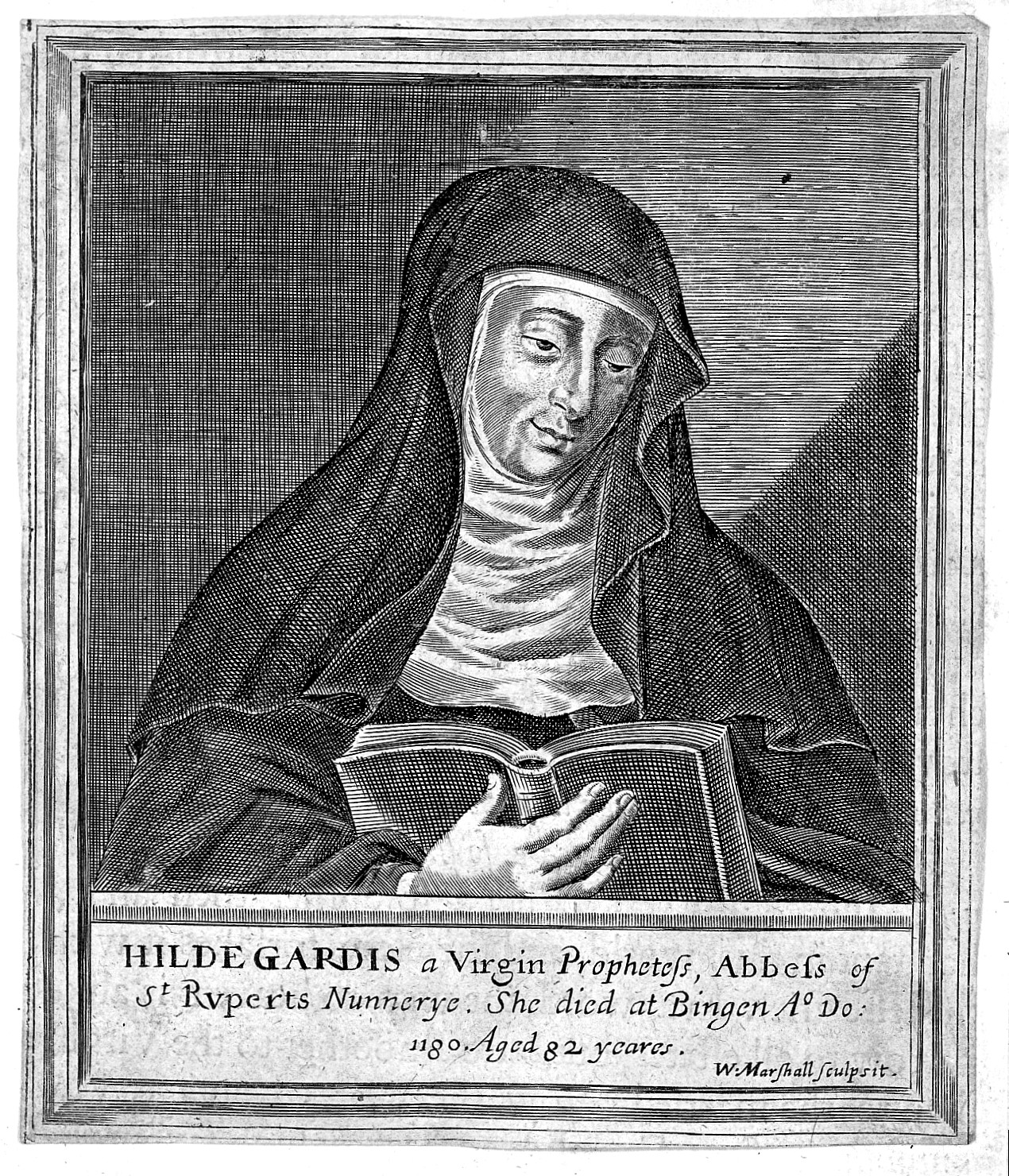 Portrait of Hildegard von Bingen, German Abbess and physician. Iconographic Collections Keywords: Hildegard von Bingen; William Marshall